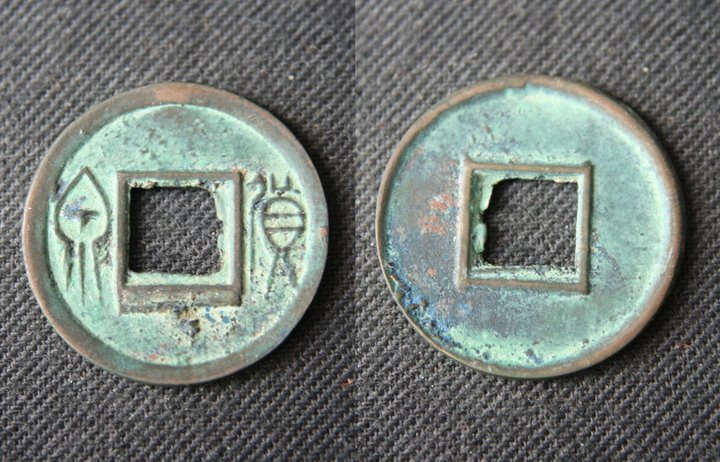 The front and reverse sides of a metal coin, 20 mm in diameter, issued during the reign of Wang Mang (r. 9–23 CE) of the brief Xin Dynasty of China.